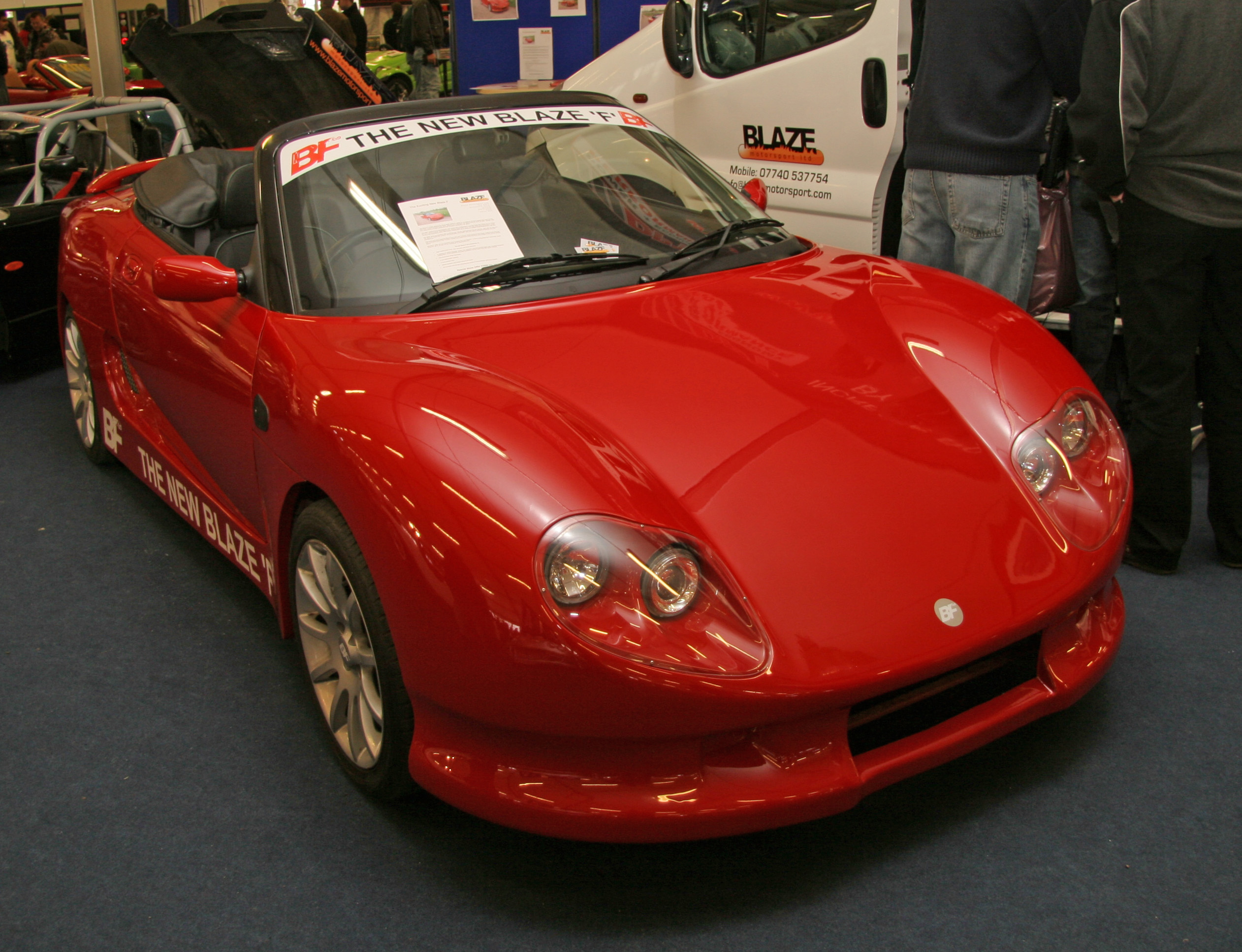 Blaze F is a rebody of the MG F